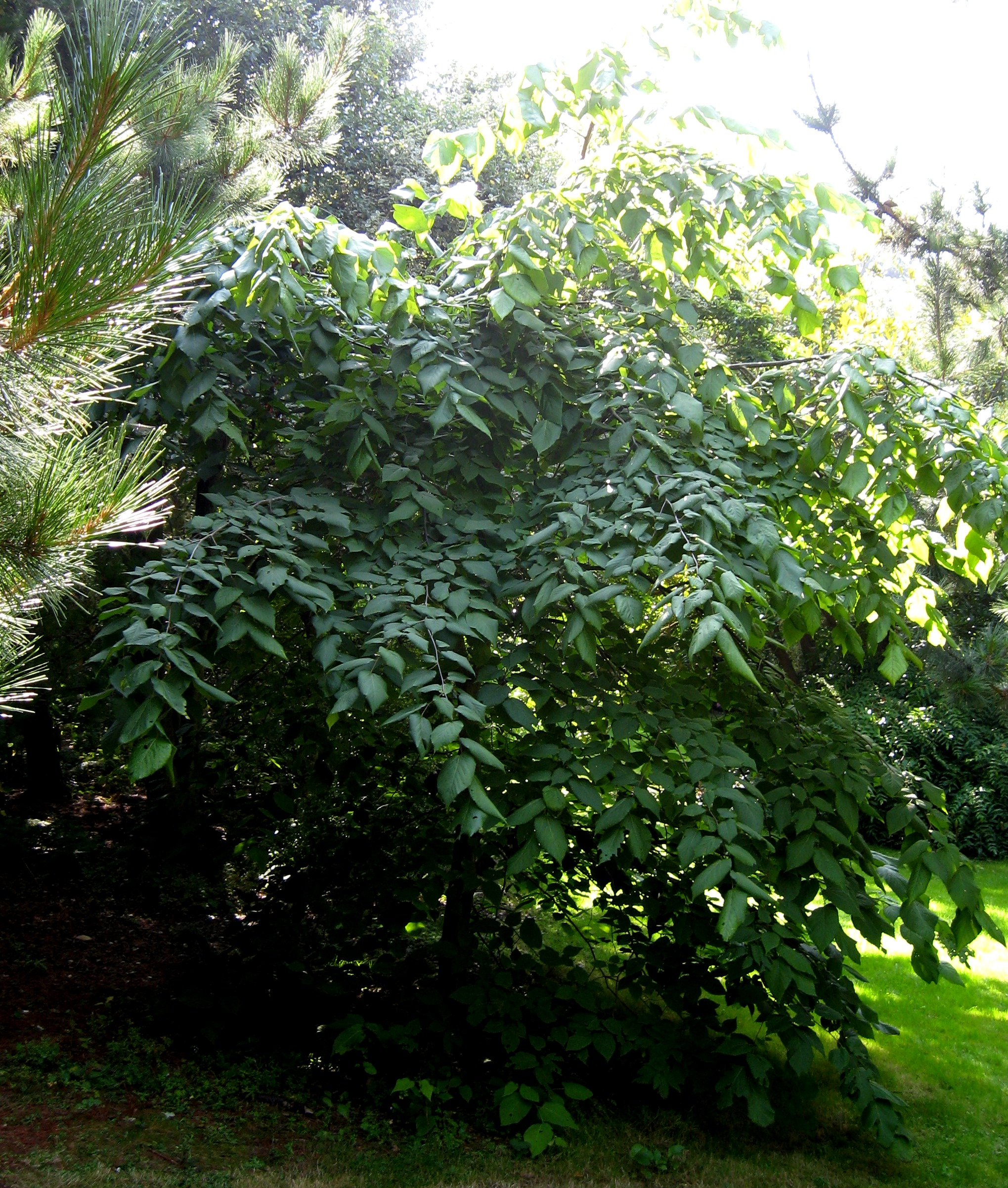 Juvenile Mexican Lime photographed at the Ventnor Botanic Garden, Isle of Wight